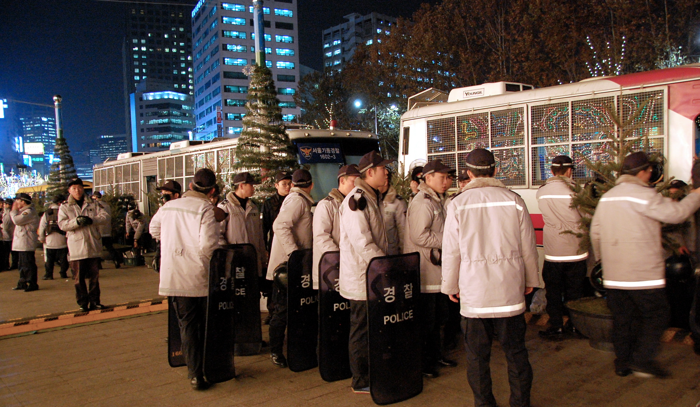 Combat Police officers deployed with jackets in Seoul, South Korea. They have their anti-riot shields with them.